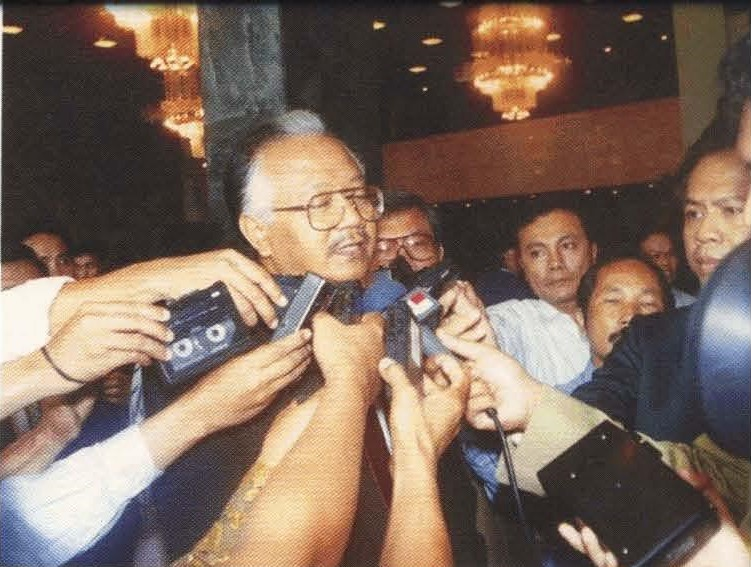 Suryadi being interviewed by reporters as the Vice Chairman of the People's Representative Council